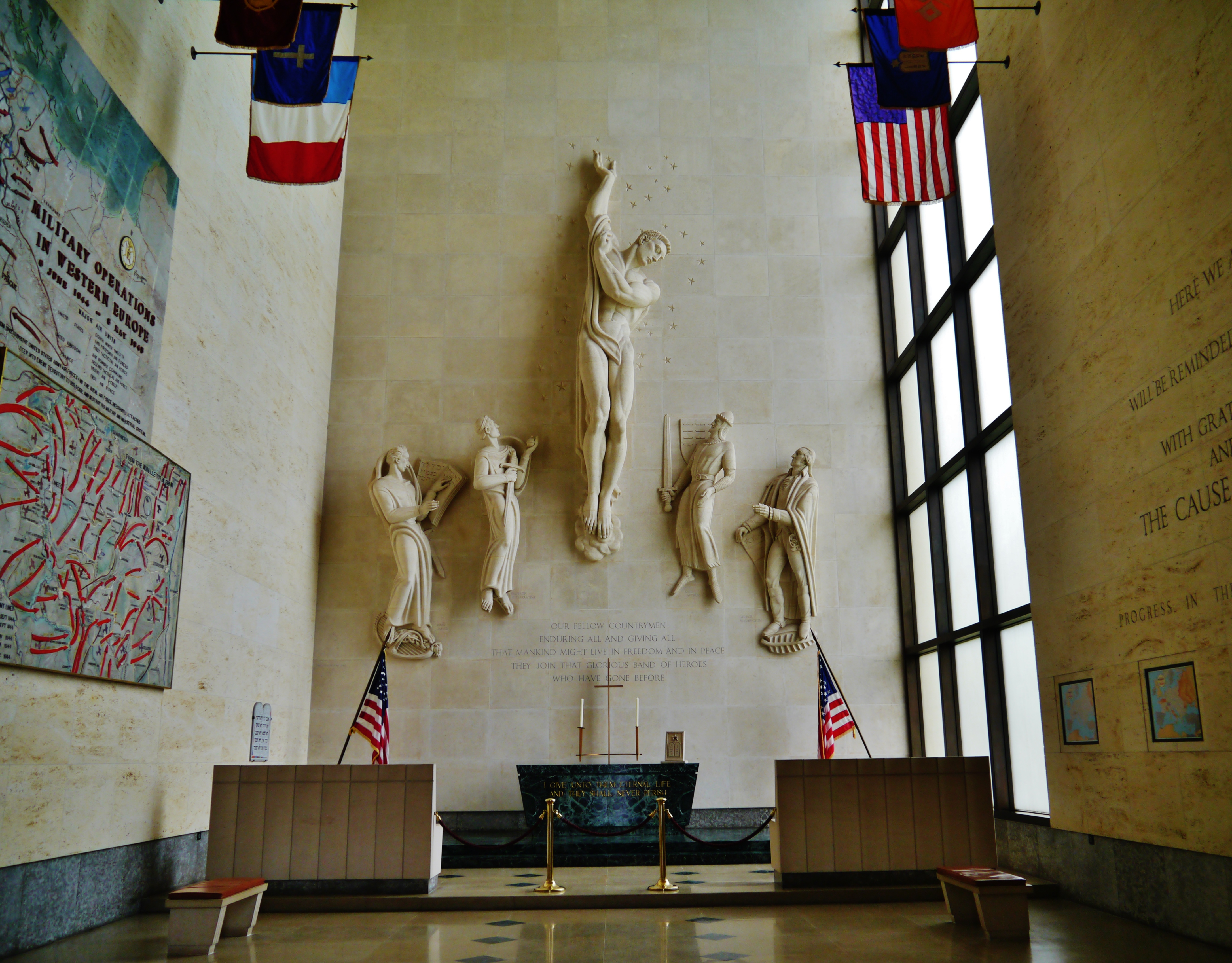 Interior of the Chapel at the American War Cemetery, Saint-Avold, Département of Moselle, Region of Lorraine (Grand Est), France